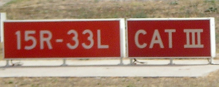 Madrid-Barajas airport, runway 15R-33L banner (taxiway signs).